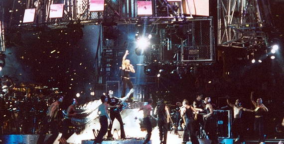 Madonna concert in Los Angeles back in '01